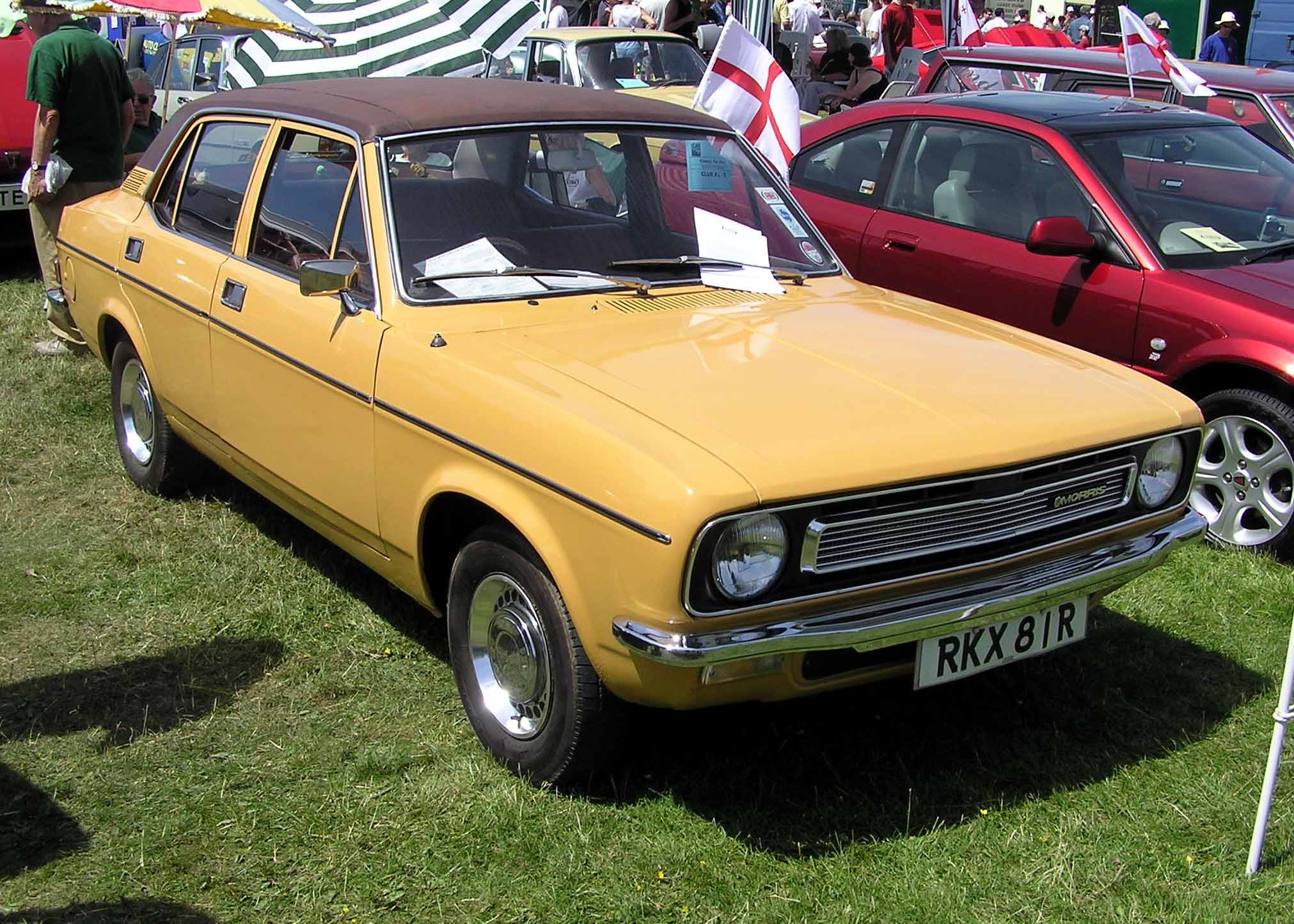 1976 Morris Marina at Bristol Car Show, The Downs, Bristol, England.